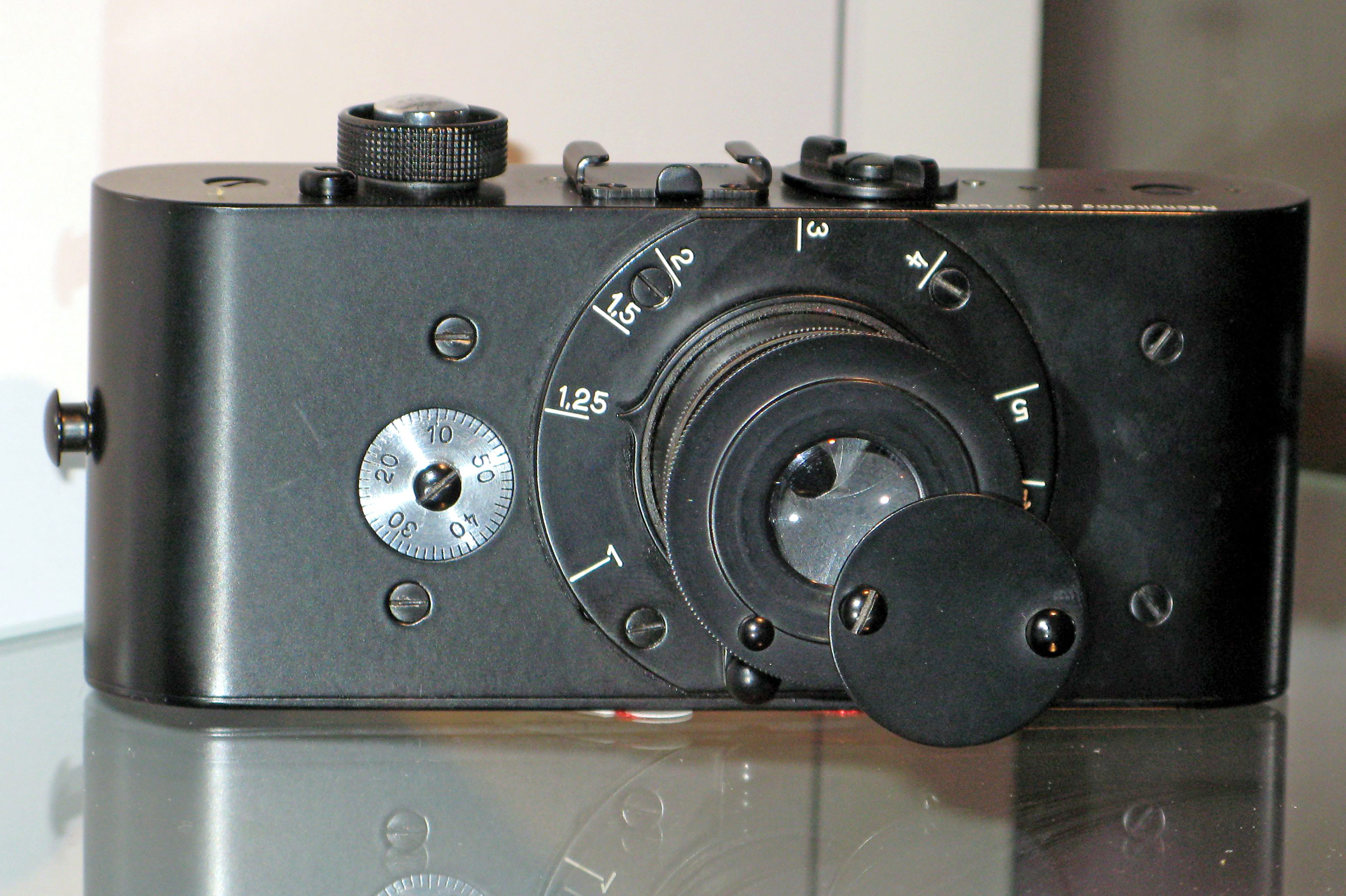 Ur-Leica replica, on display at Vevey photography museum